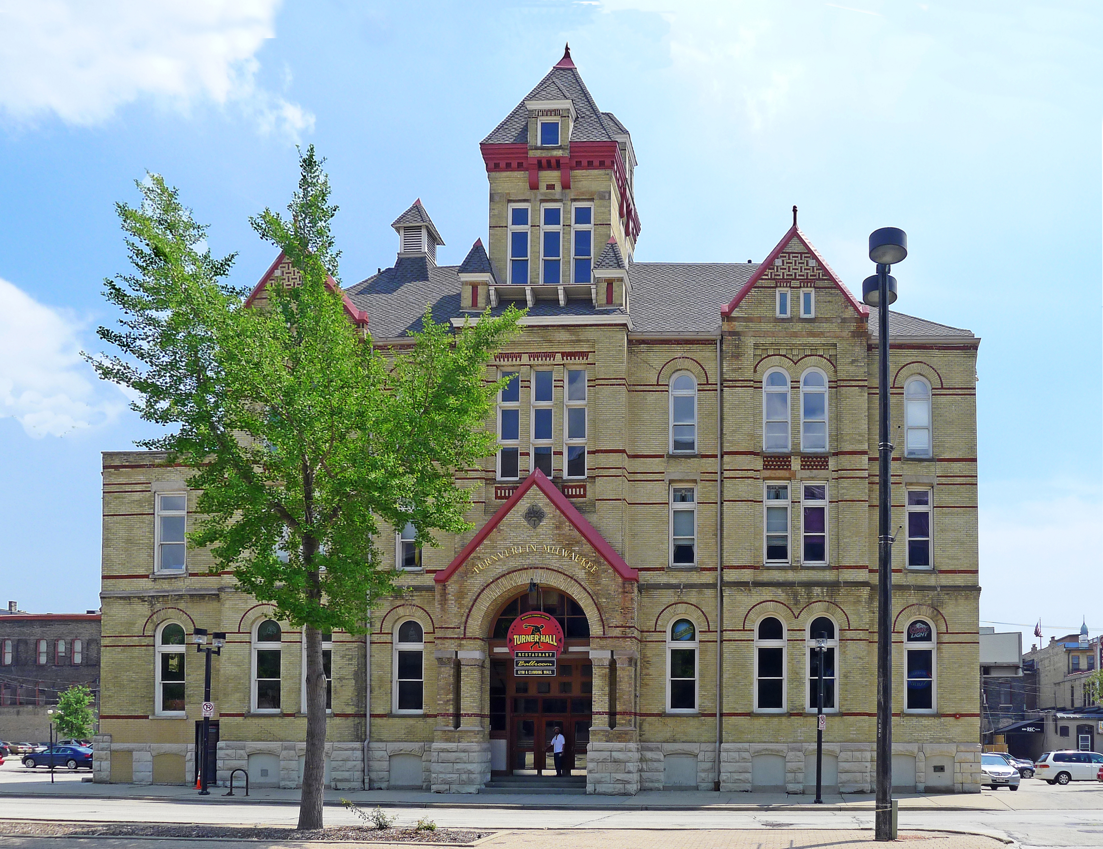 Turner Hall in Milwaukee, Wisconsin